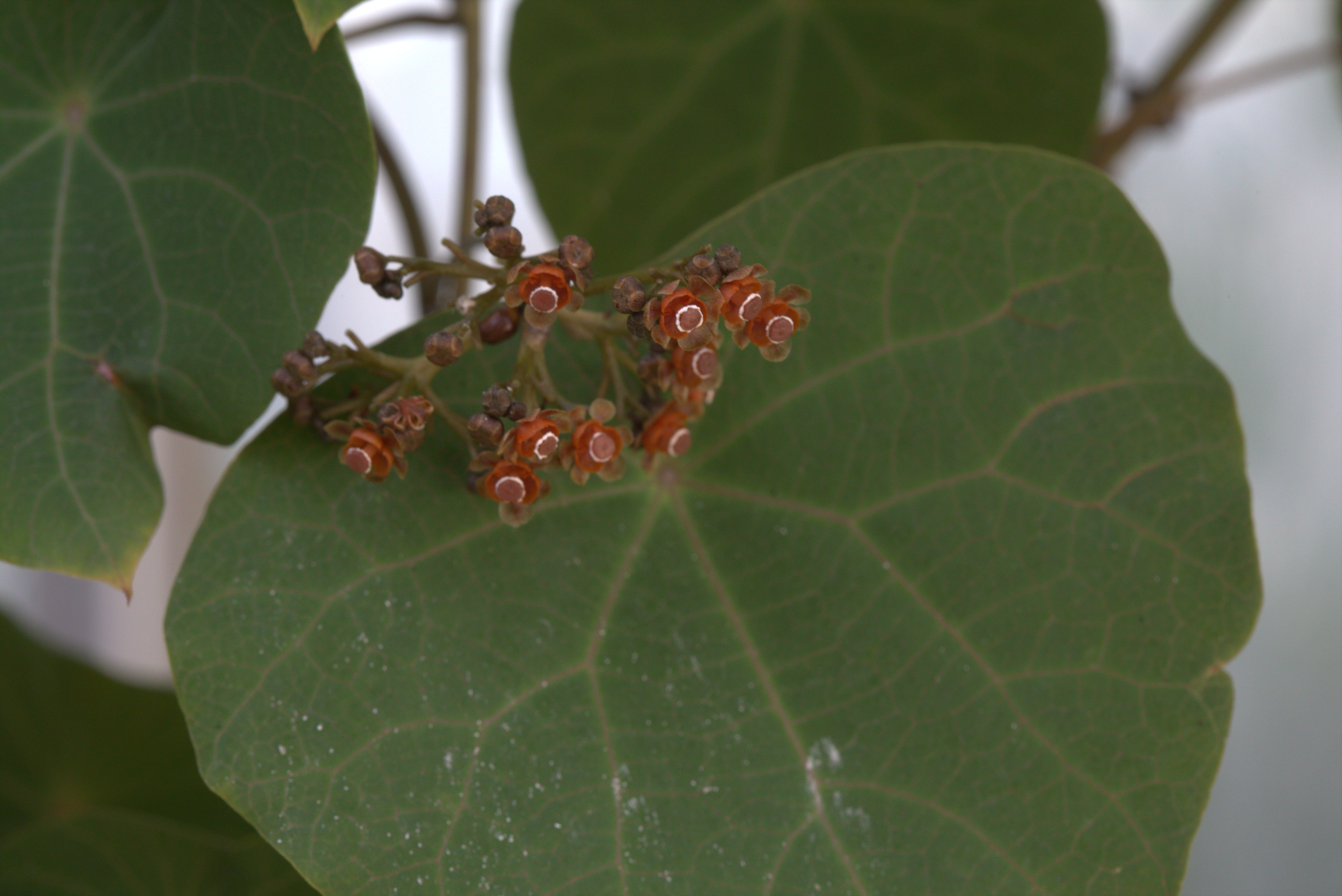 Stephania venosa in Gothenburg Botanical Garden 2015. Plant id: 2008-2136 p G.